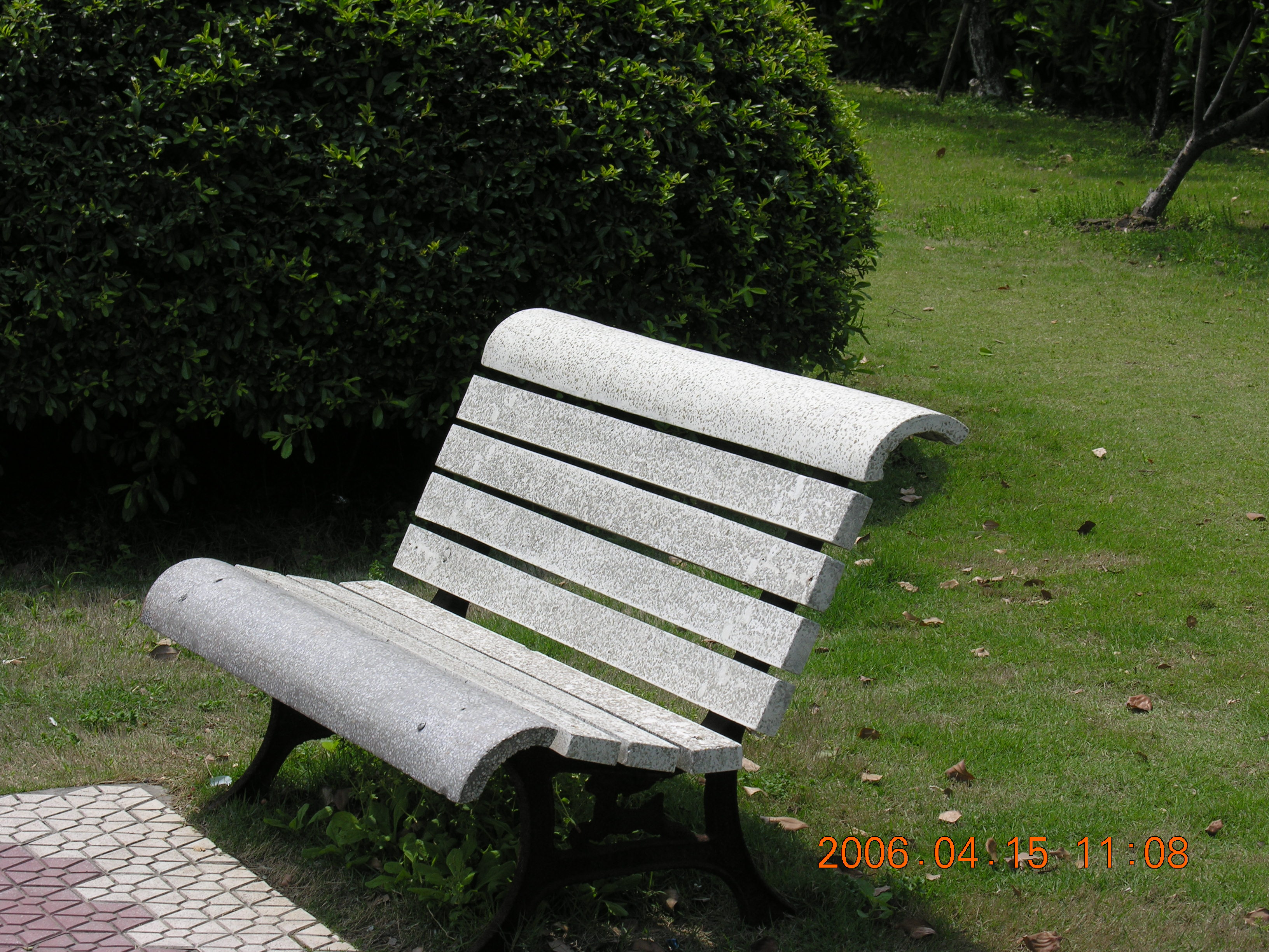 A chair in a park